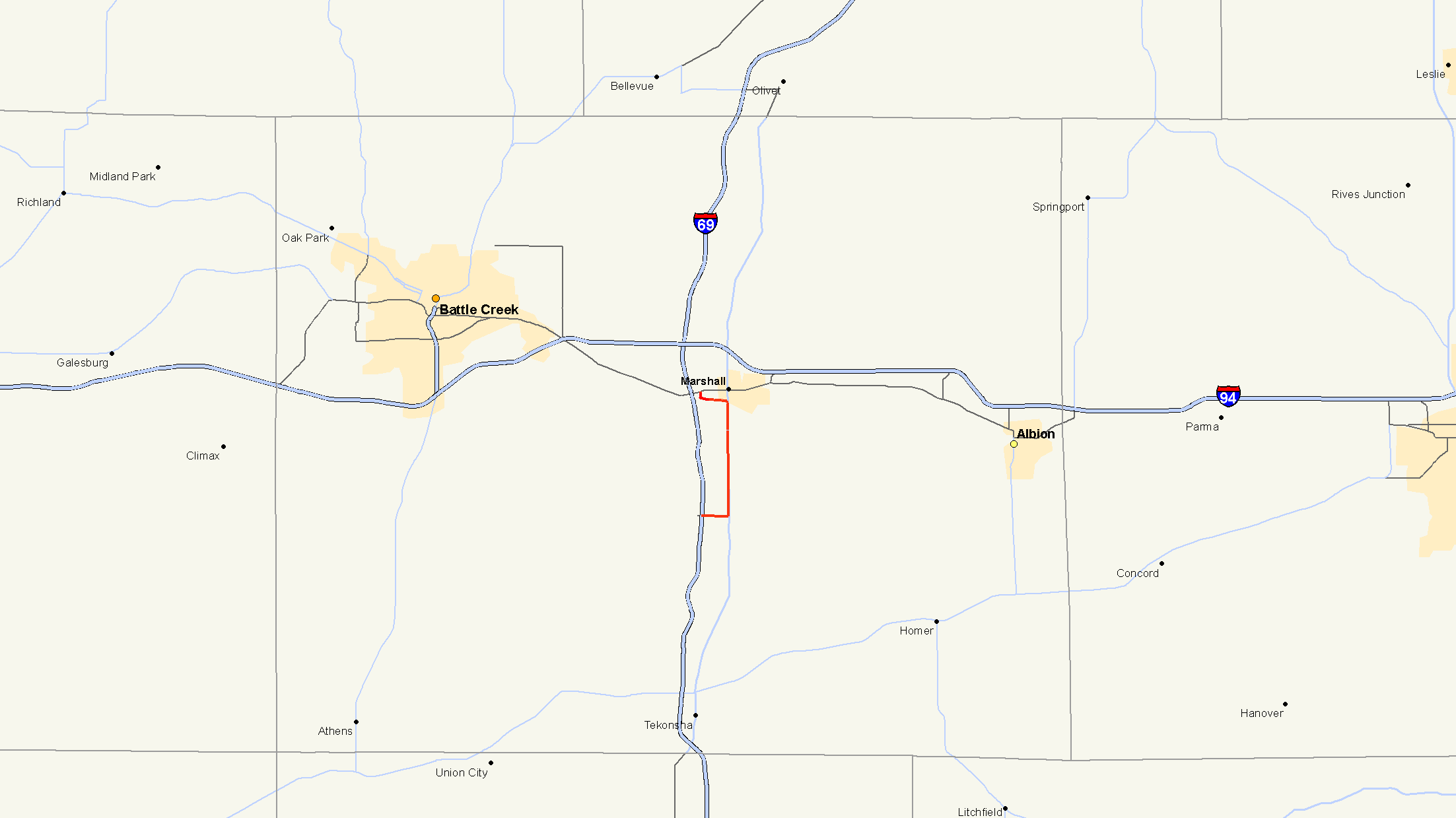 Map of M-227